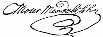 signature of Moses Mendelssohn